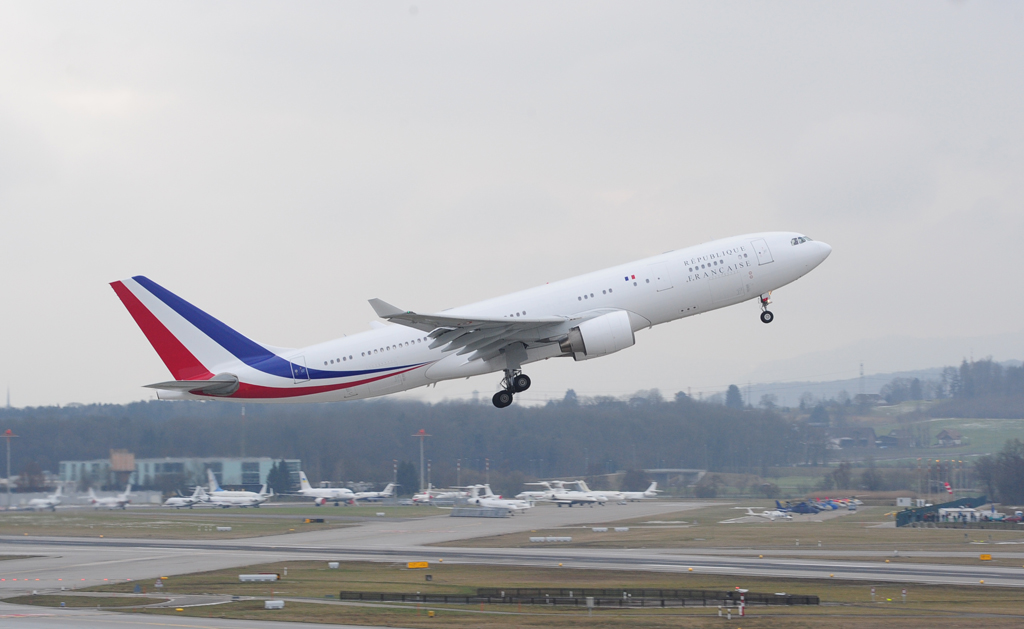 F-RARF A330 of French Air Force departing from Zurich on 27 January 2011, after visiting in connection with the World Economic Forum.